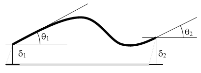 "Curved beam", viga_curva.png